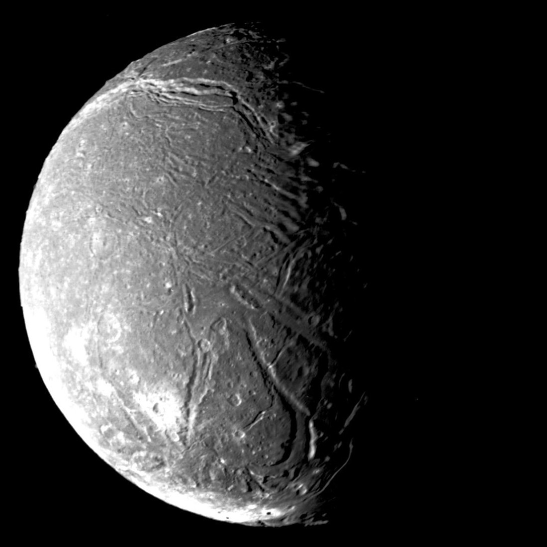 This mosaic of the four highest-resolution images of Ariel represents the most detailed Voyager 2 picture of this satellite of Uranus. The images were taken through the clear filter of Voyager's narrow-angle camera on Jan. 24, 1986, at a distance of about 130,000 kilometers (80,000 miles). Ariel is about 1,200 km (750 mi) in diameter; the resolution here is 2.4 km (1.5 mi). Much of Ariel's surface is densely pitted with craters 5 to 10 km (3 to 6 mi) across. These craters are close to the threshold of detection in this picture. Numerous valleys and fault scarps crisscross the highly pitted terrain. Voyager scientists believe the valleys have formed over down-dropped fault blocks (graben); apparently, extensive faulting has occurred as a result of expansion and stretching of Ariel's crust. The largest fault valleys, near the terminator at right, as well as a smooth region near the center of this image, have been partly filled with deposits that are younger and less heavily cratered than the pitted terrain. Narrow, somewhat sinuous scarps and valleys have been formed, in turn, in these young deposits. It is not yet clear whether these sinuous features have been formed by faulting or by the flow of fluids.